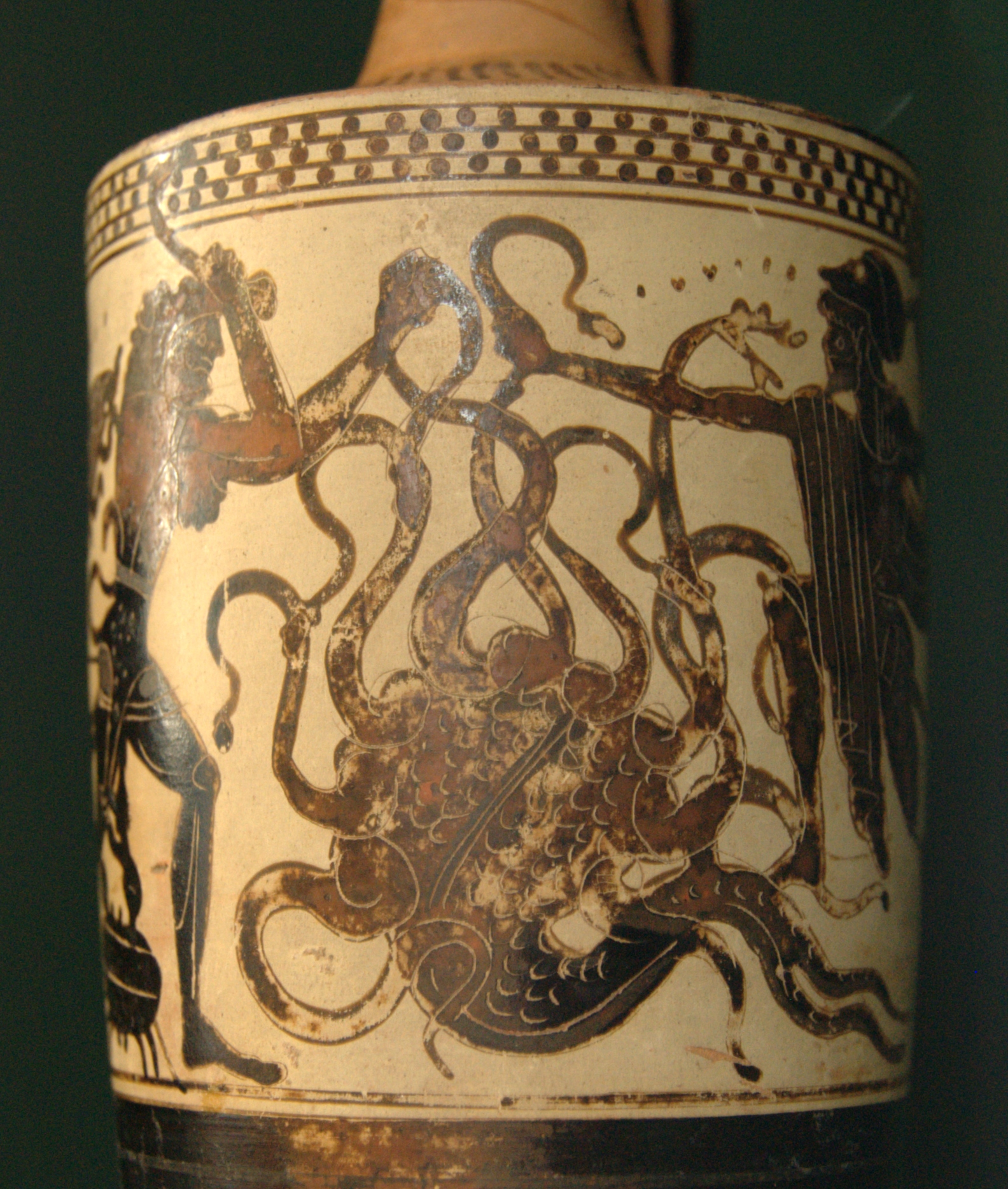 Heracles, Iolaus and the Lenaean Hydra. White-ground Attic lekythos, ca. 500–475 BC.